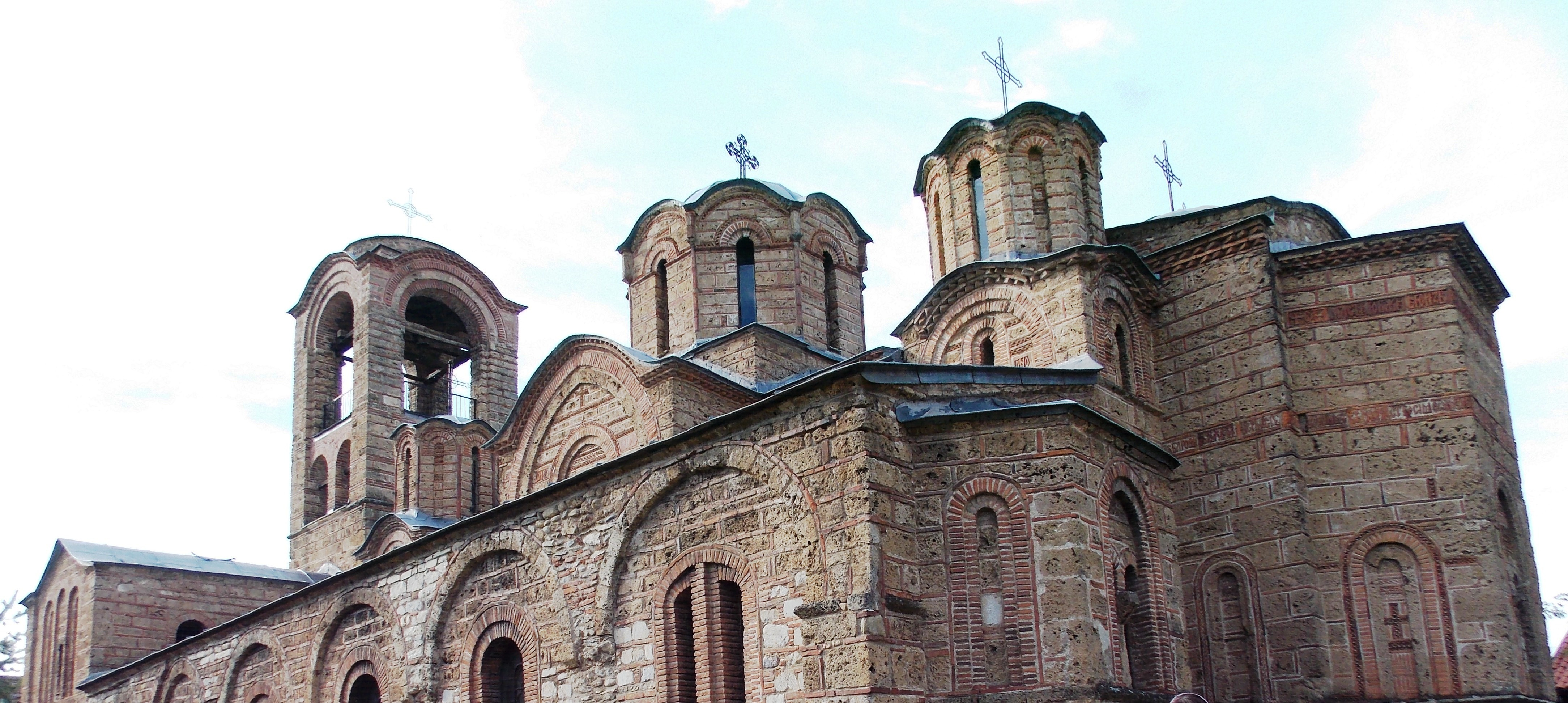 Serbian Orthodox Church of the Holy Mother of God (Bogorodica Ljeviška) in Prizren (14th Century)